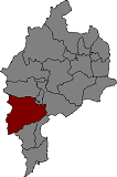 Location of Coll de Nargó in Alt Urgell